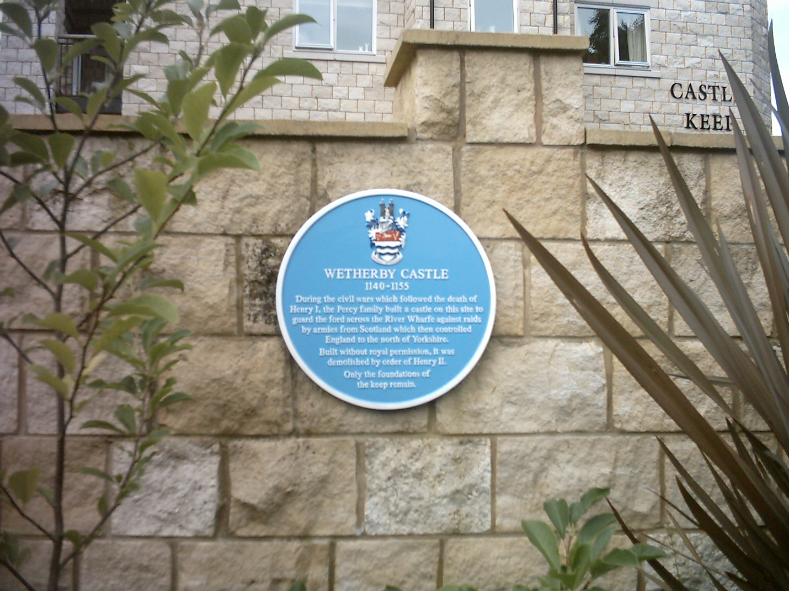 Blue plaque for Wetherby Castle, Castle Garth, Wetherby, West Yorkshire